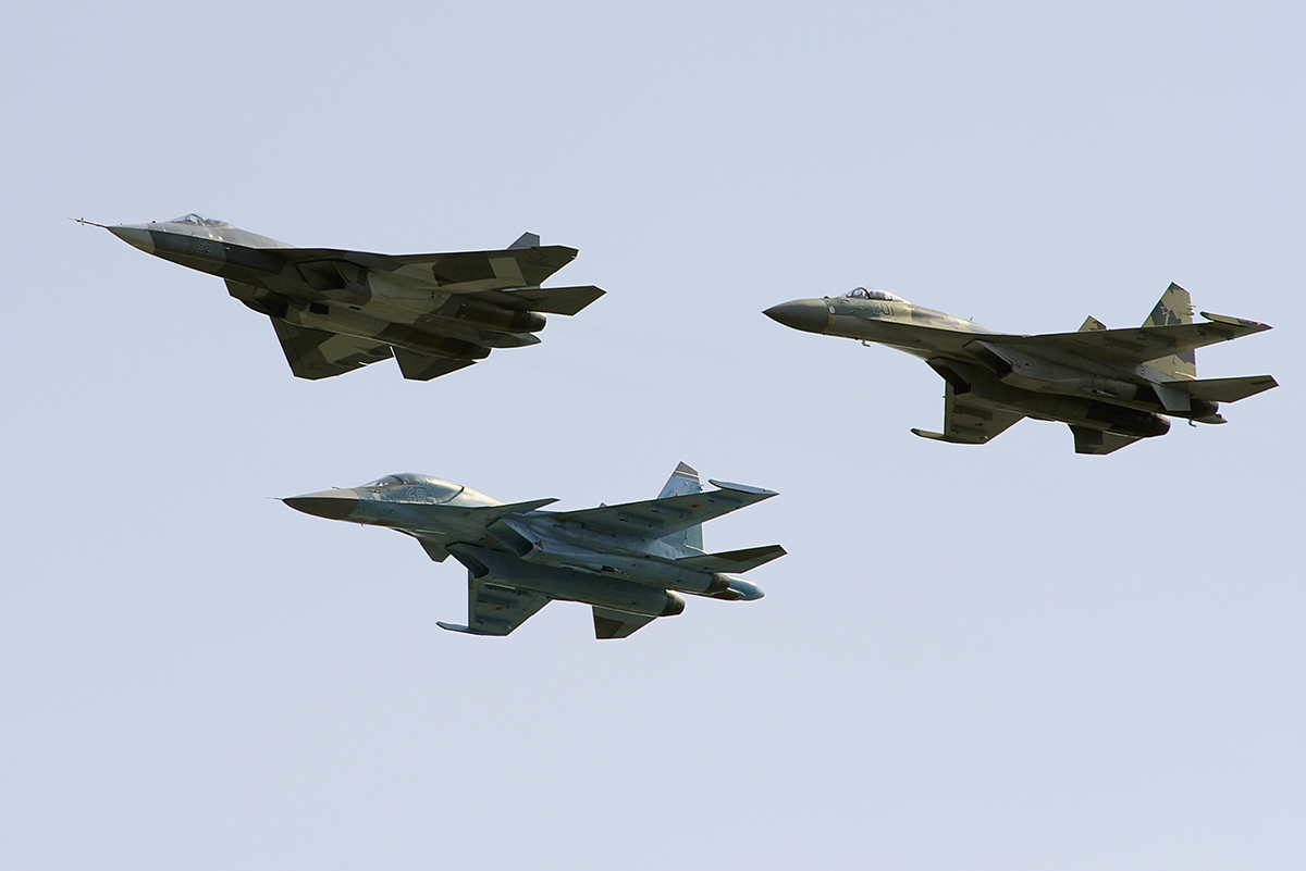 Trio in flight